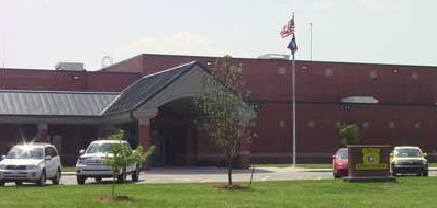 This is a picture of the front of Circle Middle School This is a picture of the front of Circle Middle School